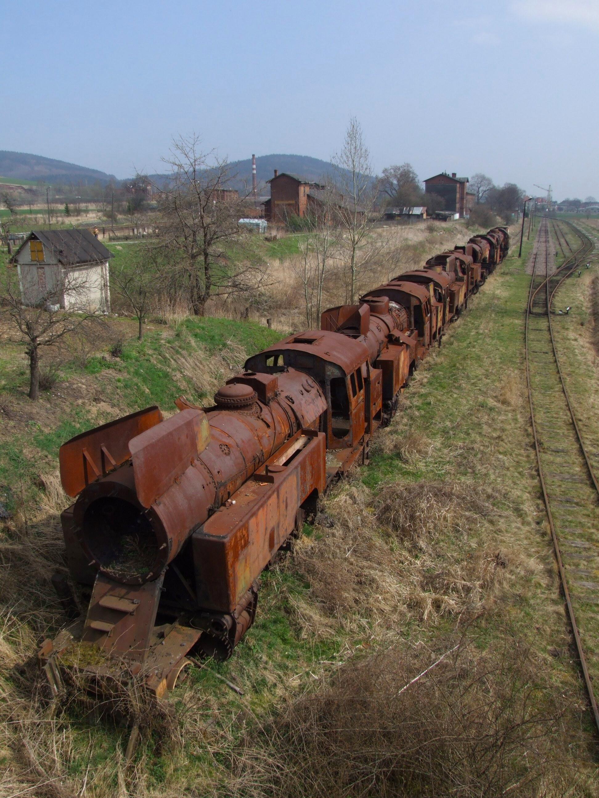 Old locomotives in former railway station Ścinawka Średnia Dworzec Mały (Mittelsteine Kleinbahnhof), Sudetes. On the right abolished industrial siding to power station Mittelsteine. (In May 2009 the steam locomotives were not there)